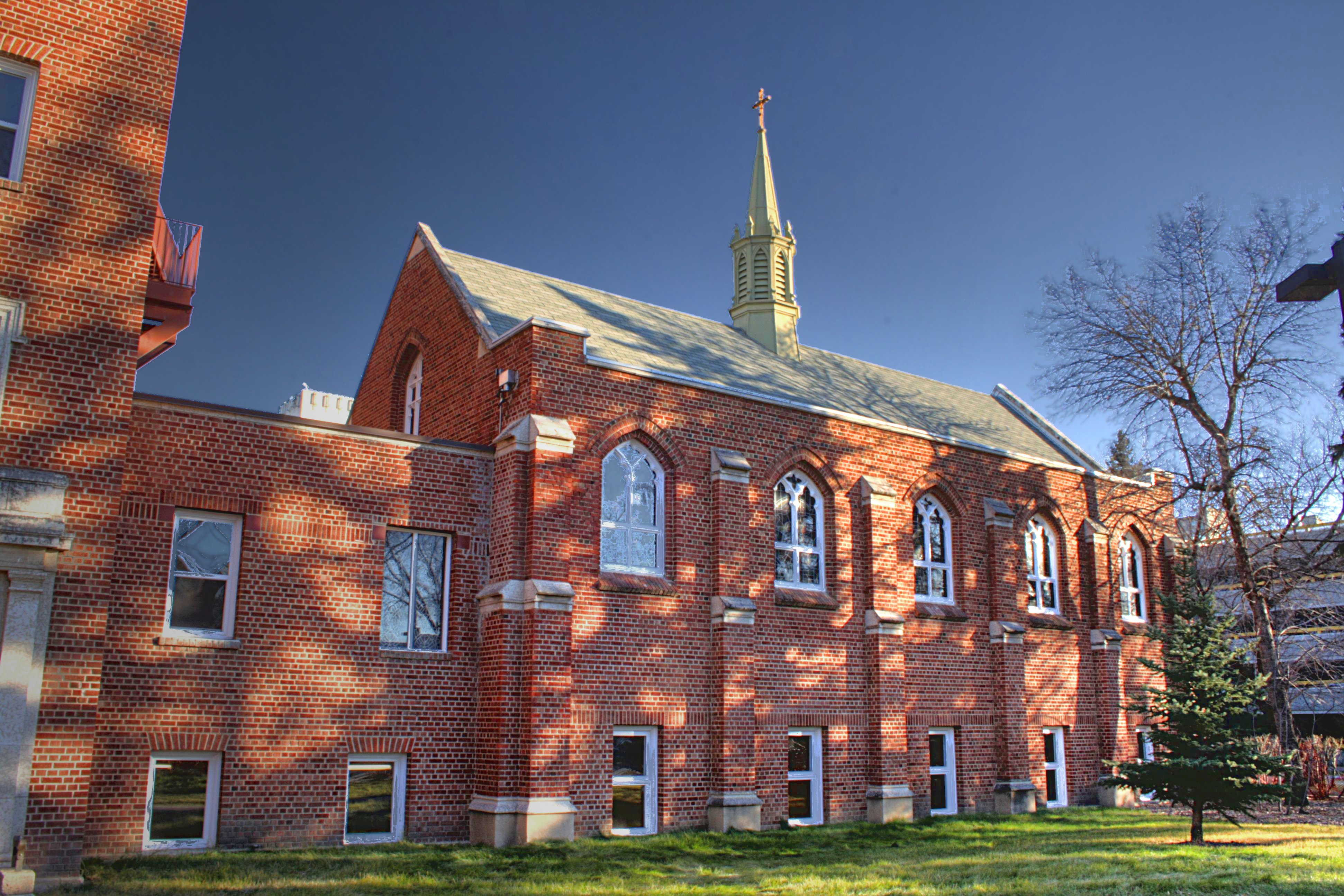 The chapel of Saint Joseph's College on the northern campus of the University of Alberta in Edmonton, Alberta, Canada.